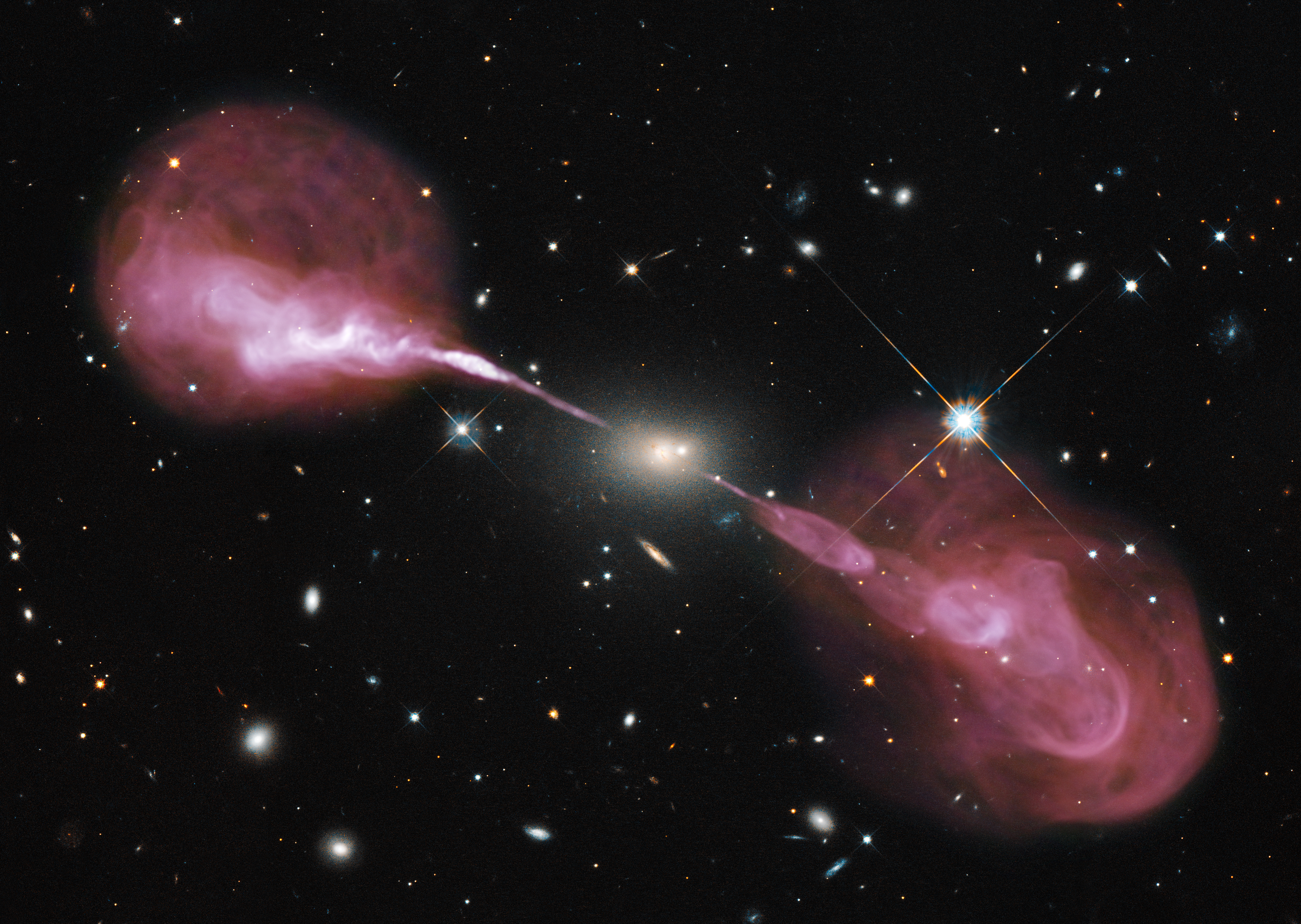 Visible light image obtained by the Earth-orbiting Hubble Space Telescope superposed with a radio image taken by the Very Large Array (VLA) of radio telescopes in New Mexico, USA.